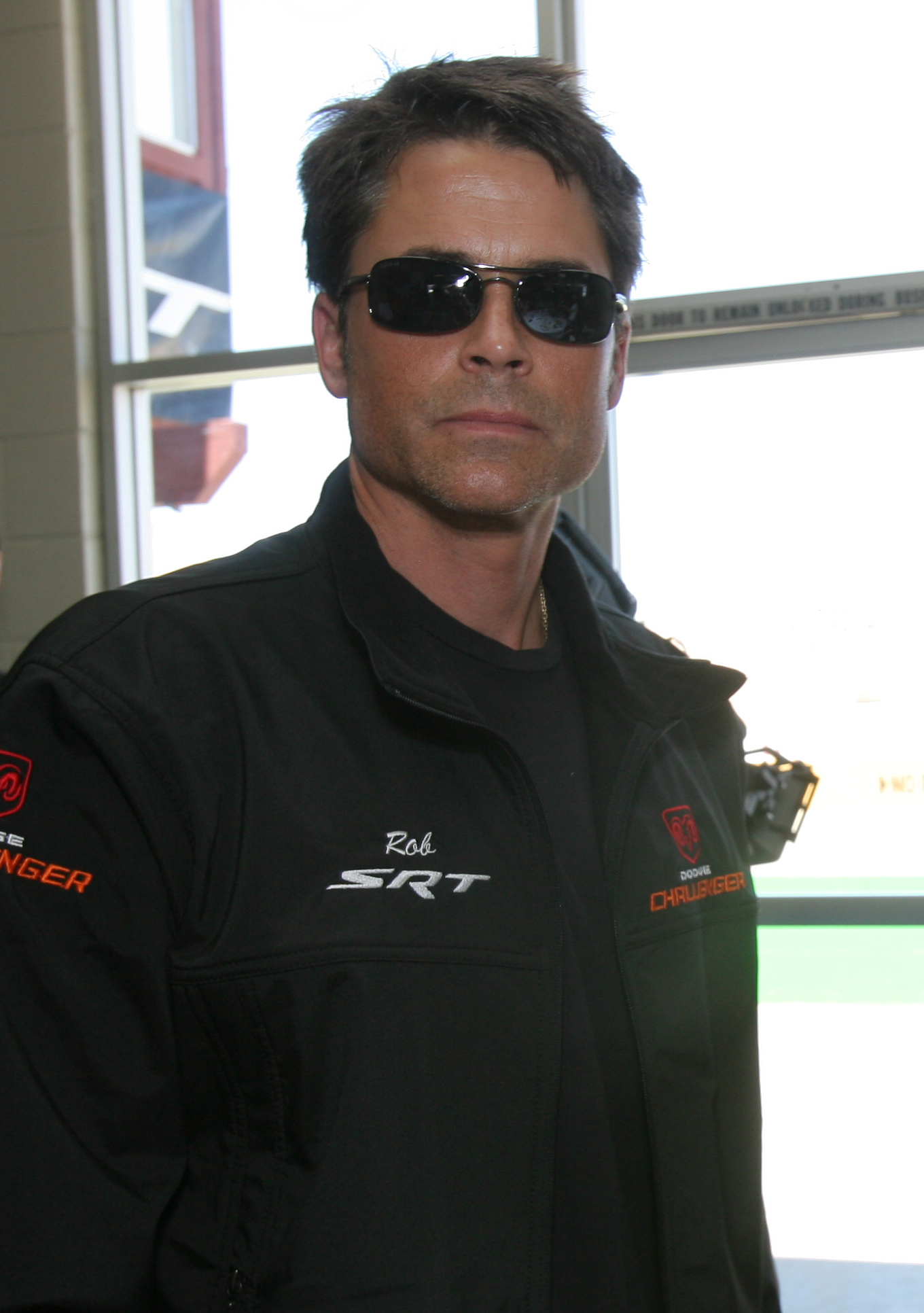 Rob Lowe ready for the All-New Dodge Challenger